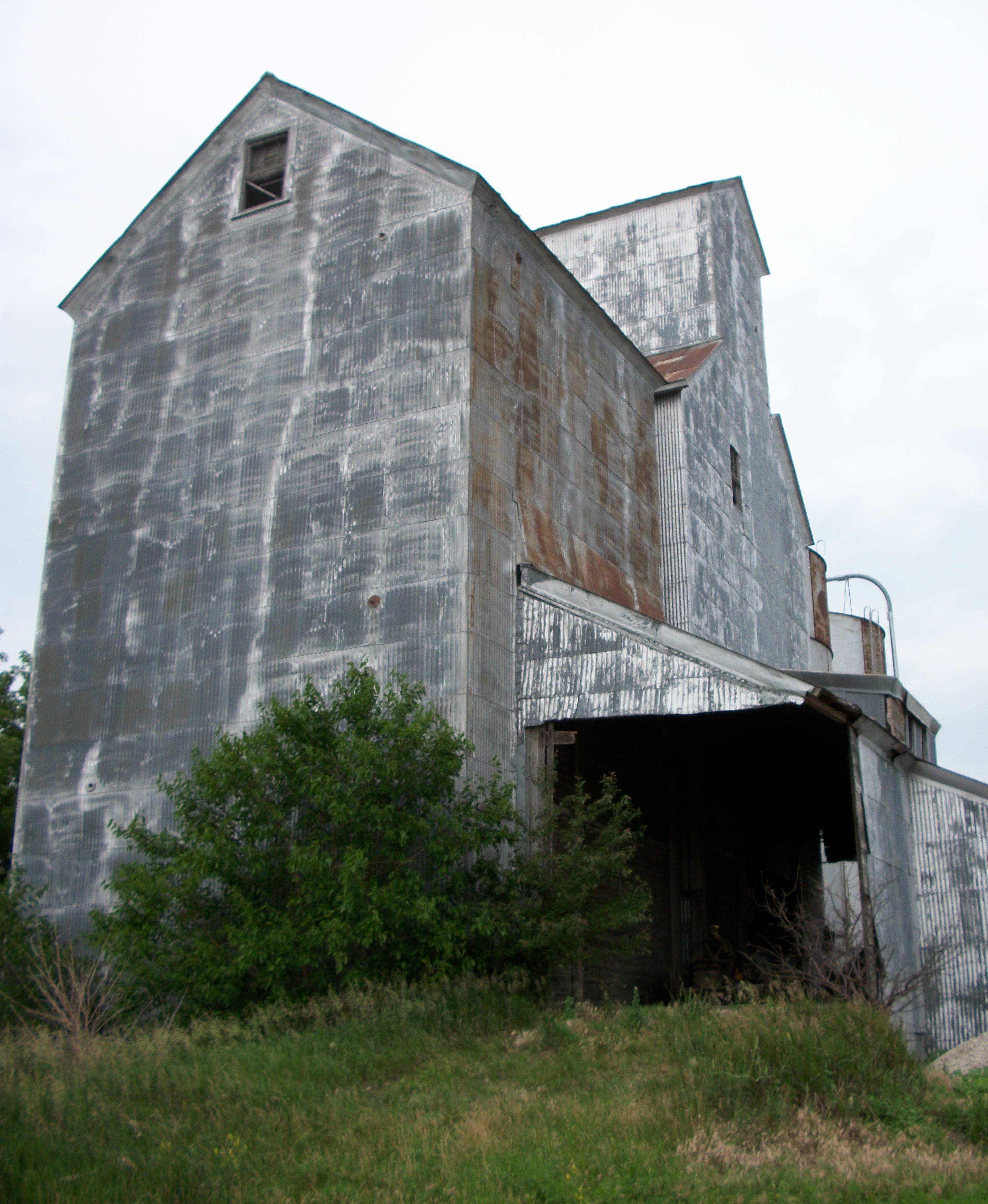 Sexton elevator located in the former town of Sexton, Kossuth County, Iowa.